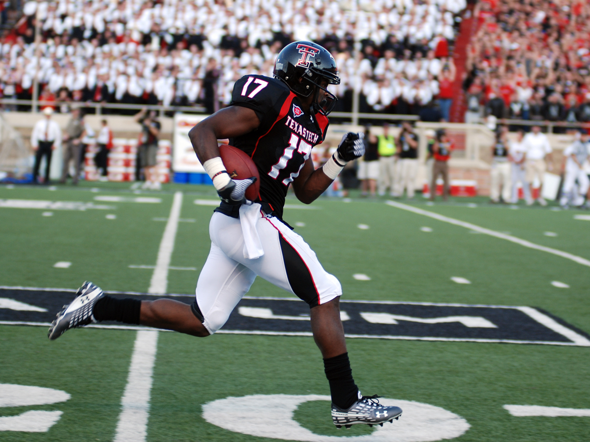 Photo Credit: Jeff TinnellTexas Tech Red Raiders football player Detron Lewis on 09-05-2009 during the game against North Dakota